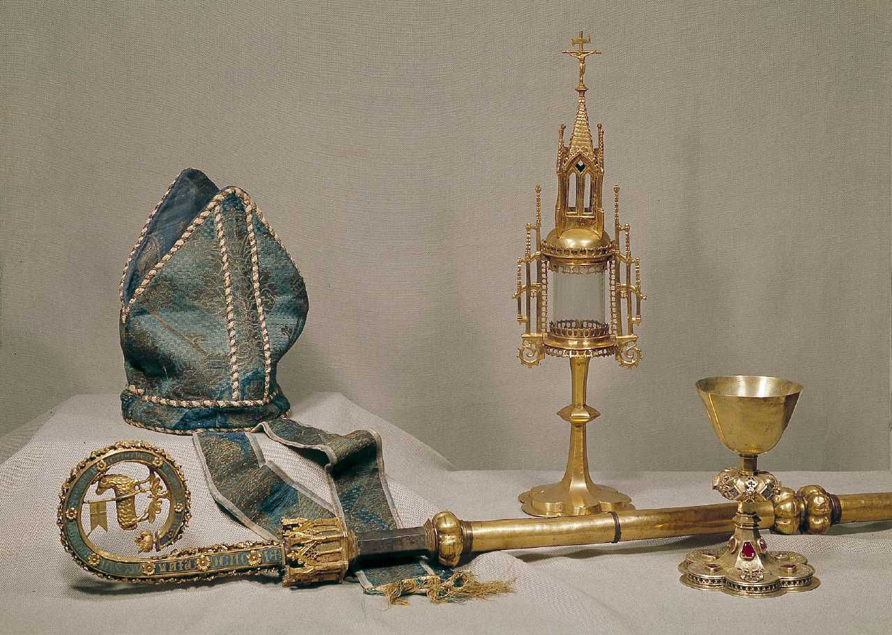 Mitra af blå guldbrokade med snore af sølv- og guldtråd. Har tilhørt abbeden af Cistercienserklosteret i Sorø. En mitra var normalt en del af en biskops embedsdragt, men abbeden i Sorø havde fået ret til også at bære biskoppeligt skrud. Datering: 0. 1500. Bispestav af forgyldt kobber med emalje fra Sorø Kloster. Den latinske indskrift på stavens krumning hentyder til figuren af Guds-lammet med sejrsfanen. Datering: 1300-årene. Stor monstrans af forgyldt kobber og bronze, ukendt hjemsted. Alterkalk fra Nordstrand, Sydslesvig. Datering: 1459.